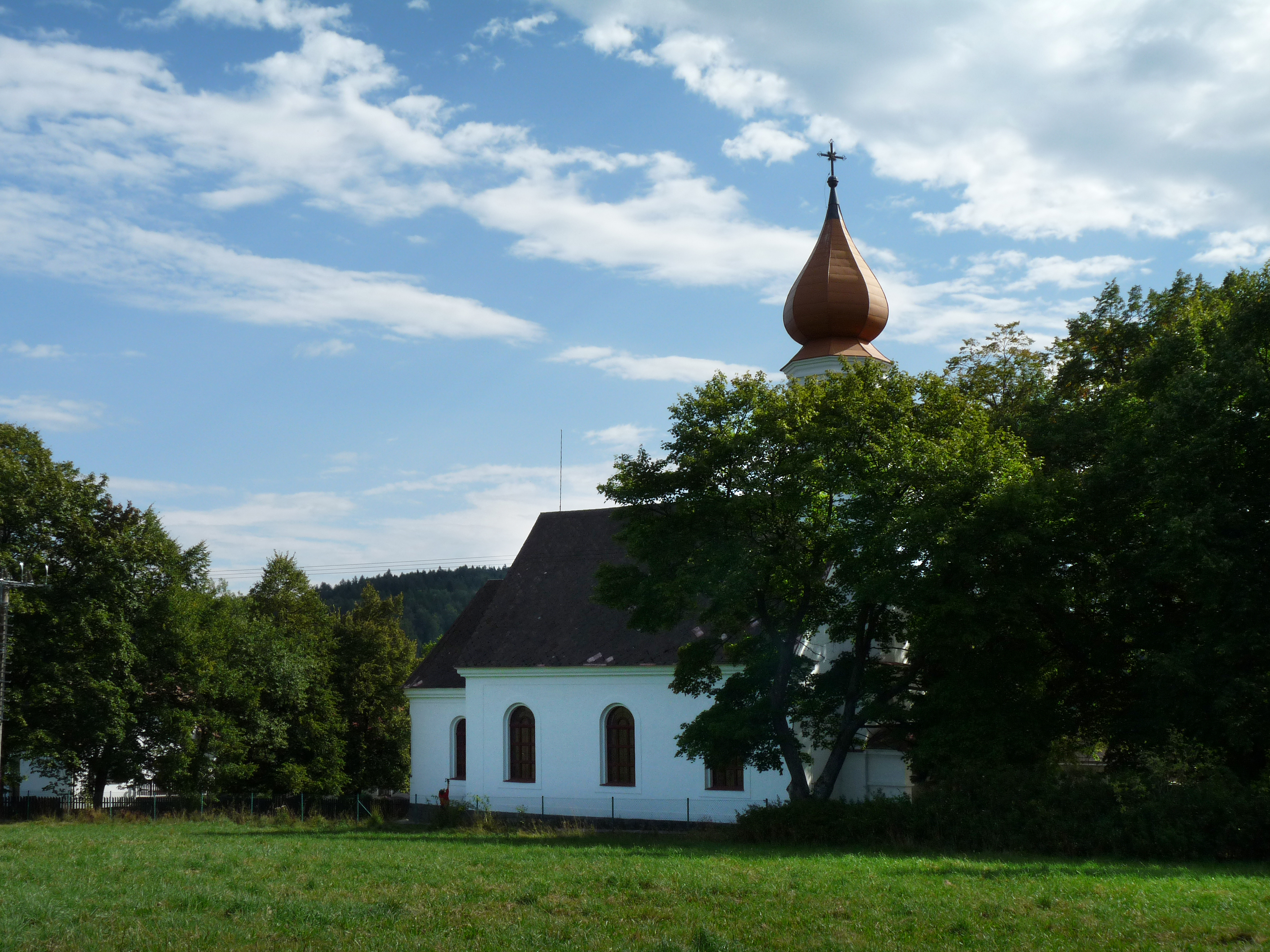 Saint in the village and municipality of Zdíkov in Prachatice District, Czech Republic.